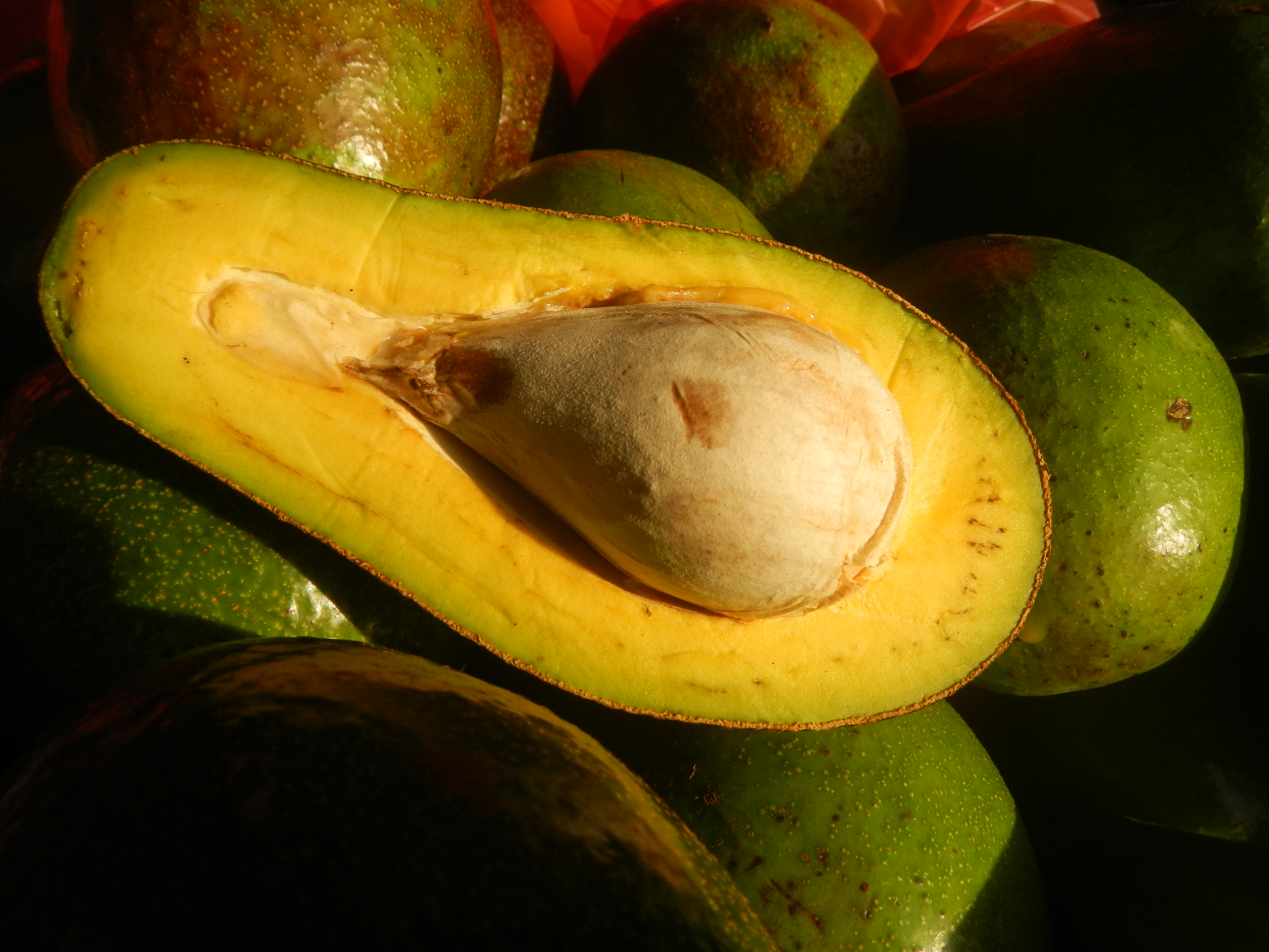 Cucumis melo Pitaya Hylocereus monacanthus Longan Avocado (Philippines) in Barangays Pagala 14°58'14"N 120°53'26"E Baliuag, Bulacan, Bulacan province (Note: Judge Florentino Floro, the owner, to repeat, Donor Florentino Floro of all these photos hereby donate gratuitously, freely and unconditionally all these photos to and for Wikimedia Commons, exclusively, for public use of the public domain, and again without any condition whatsoever).